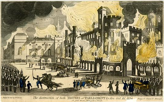 The 1834 destruction of both Houses of Parliament by fire